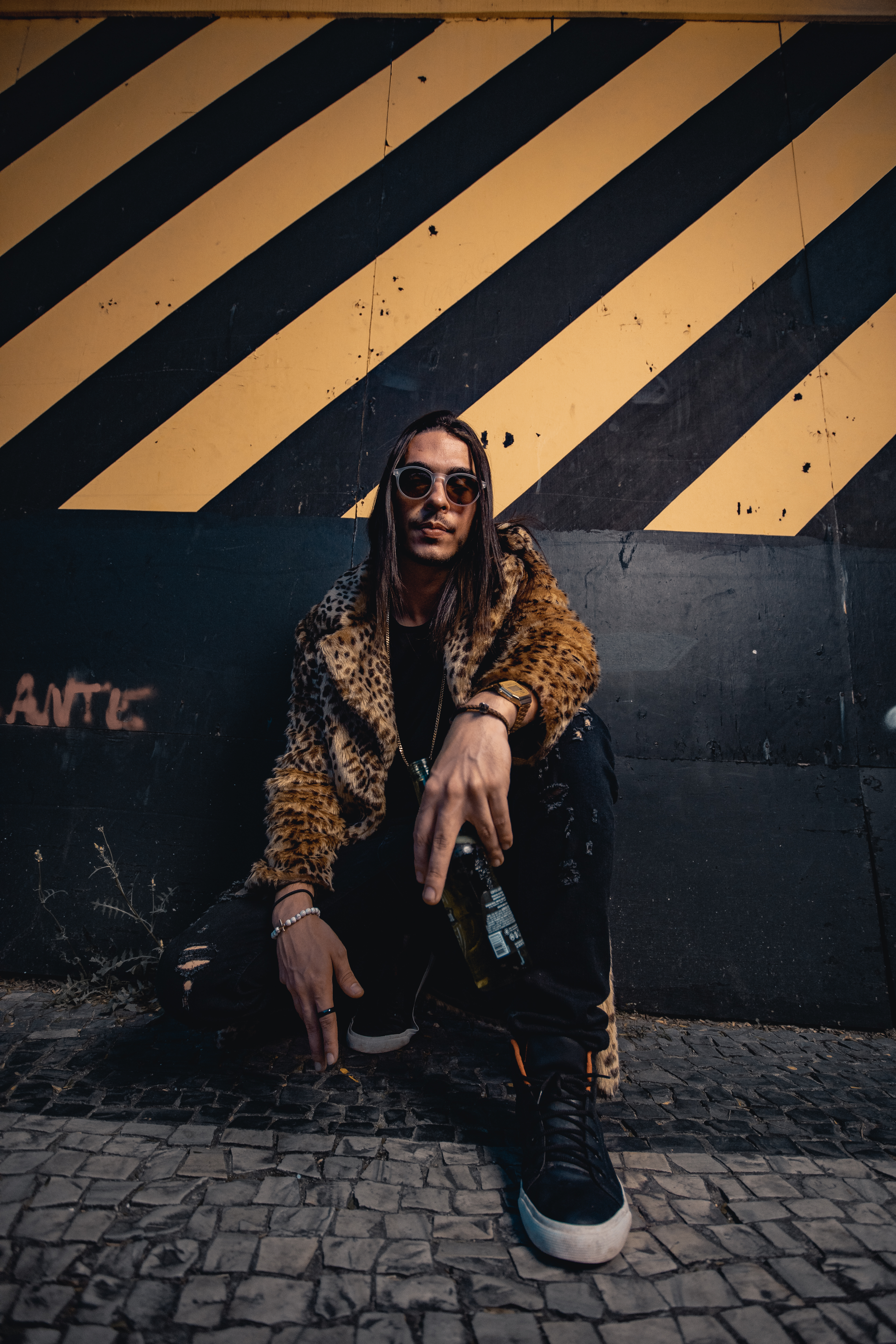 Brazilian DJ and Music Producer INGEK